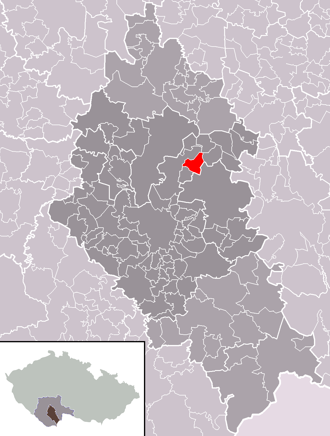 Location of Vitín municipality within České Budějovice District and administrative area of České Budějovice as a Municipality with Extended Competence.